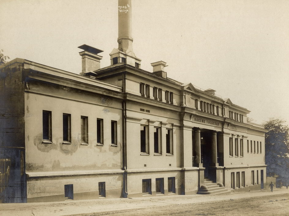 Sagene Public Bath, Photo: A.B. Wilse